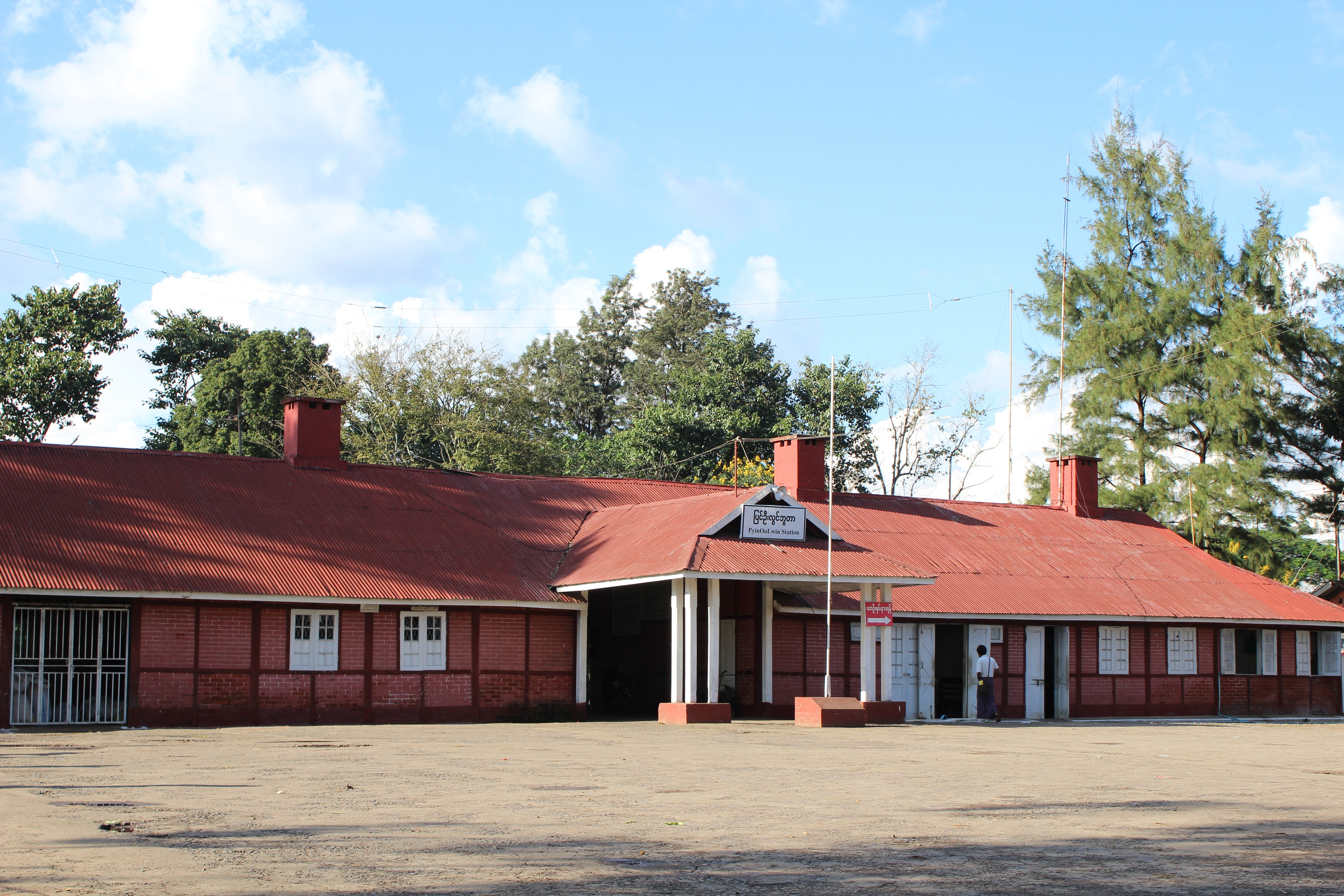 PyinooLwin Station